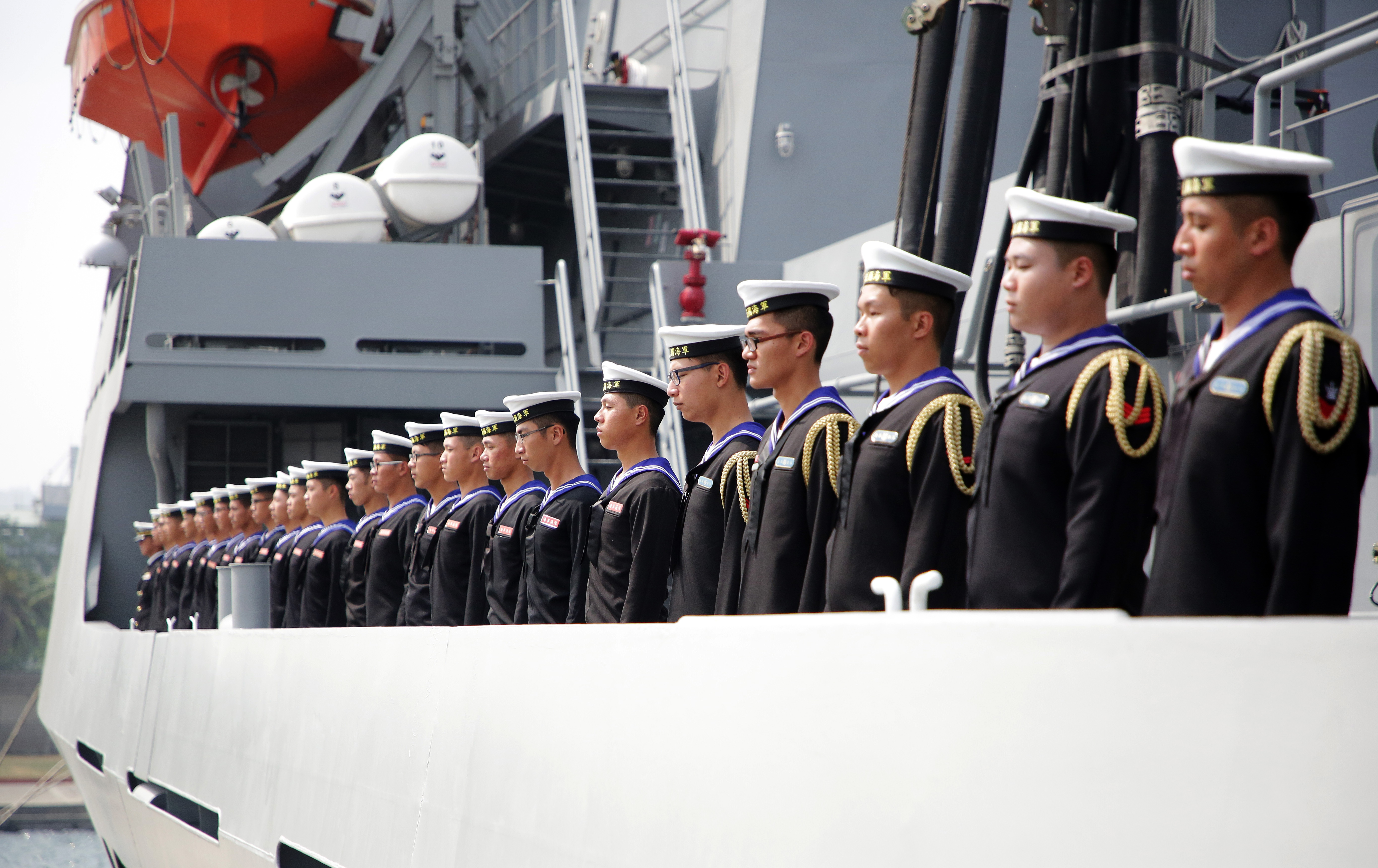 授權方式及範圍：中華民國總統府│政府網站資料開放宣告 Authorization Method & Scope: Office of the President, Republic of China (Taiwan) | Government Website Open Information Announcement